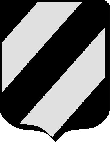 Coat of arms of the town of Magnac(-Laval), in Haute-Vienne, Limousin, France, according to d'Hozier.